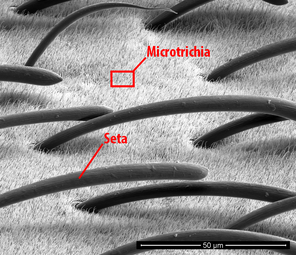 SEM-Picure of the elytron of the backswimmer Notonecta. The surface is hierarchically structured with setae and microtrichia.